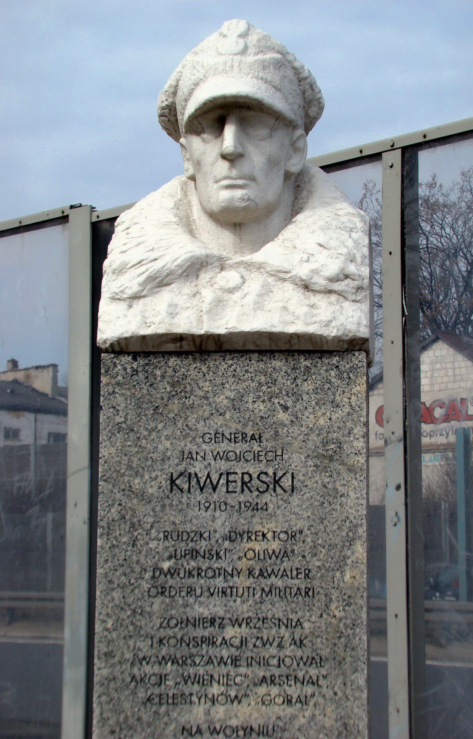 27th Wolhynian AK Infantry Division Monument in Warsaw - General Jan Wojciech Kiwerski